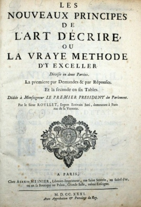 Title page of Sébastien Royllet's "Nouveaux prinxipes" (1731)